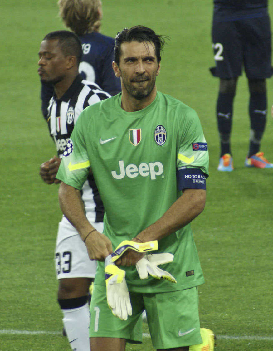 Turin, Juventus Stadium, September 16, 2014. Gianluigi Buffon playing for Juventus FC versus Malmoe FF in the 2014-15 UEFA Champions League group stages.